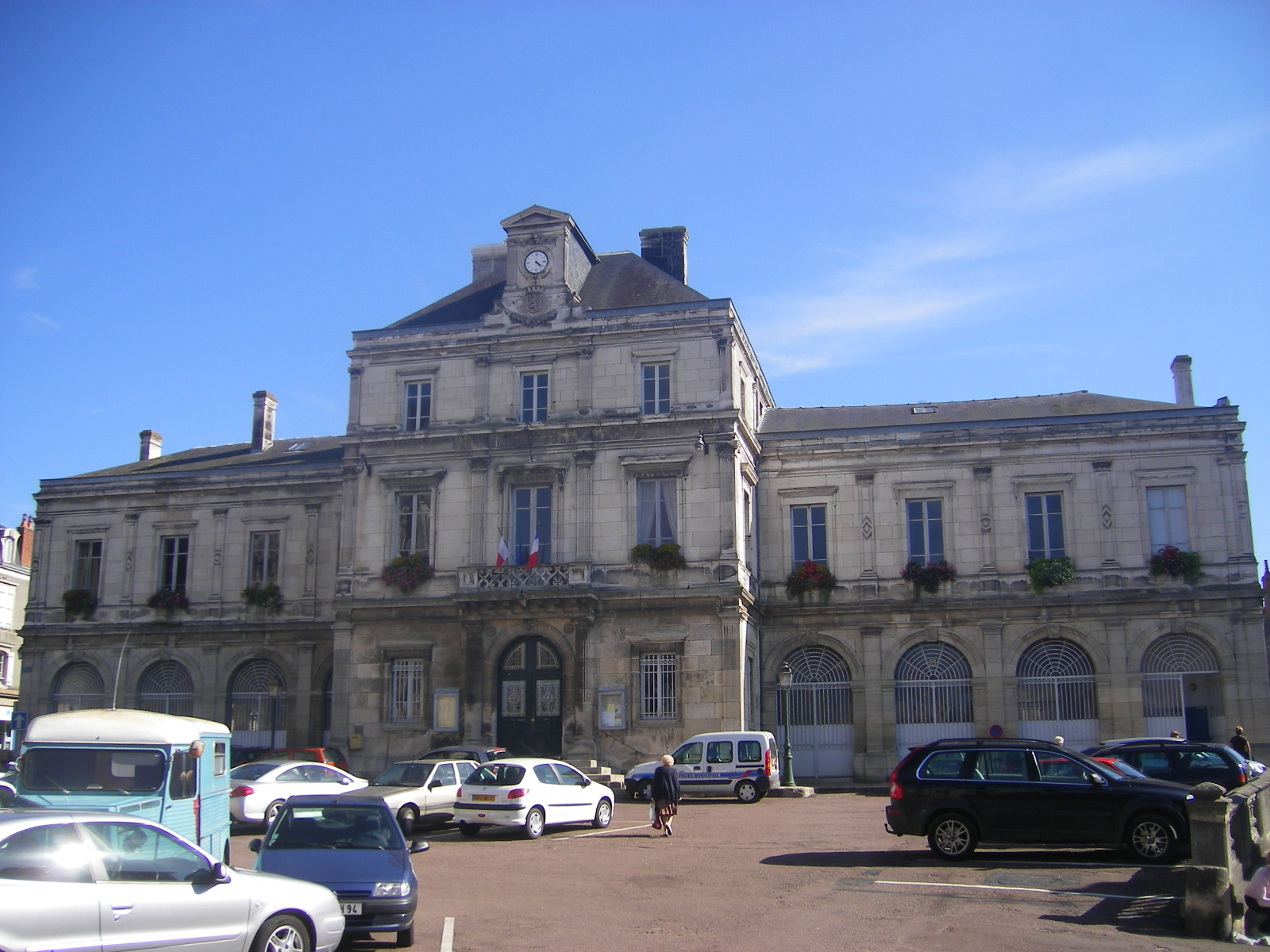 Clamecy Town hall